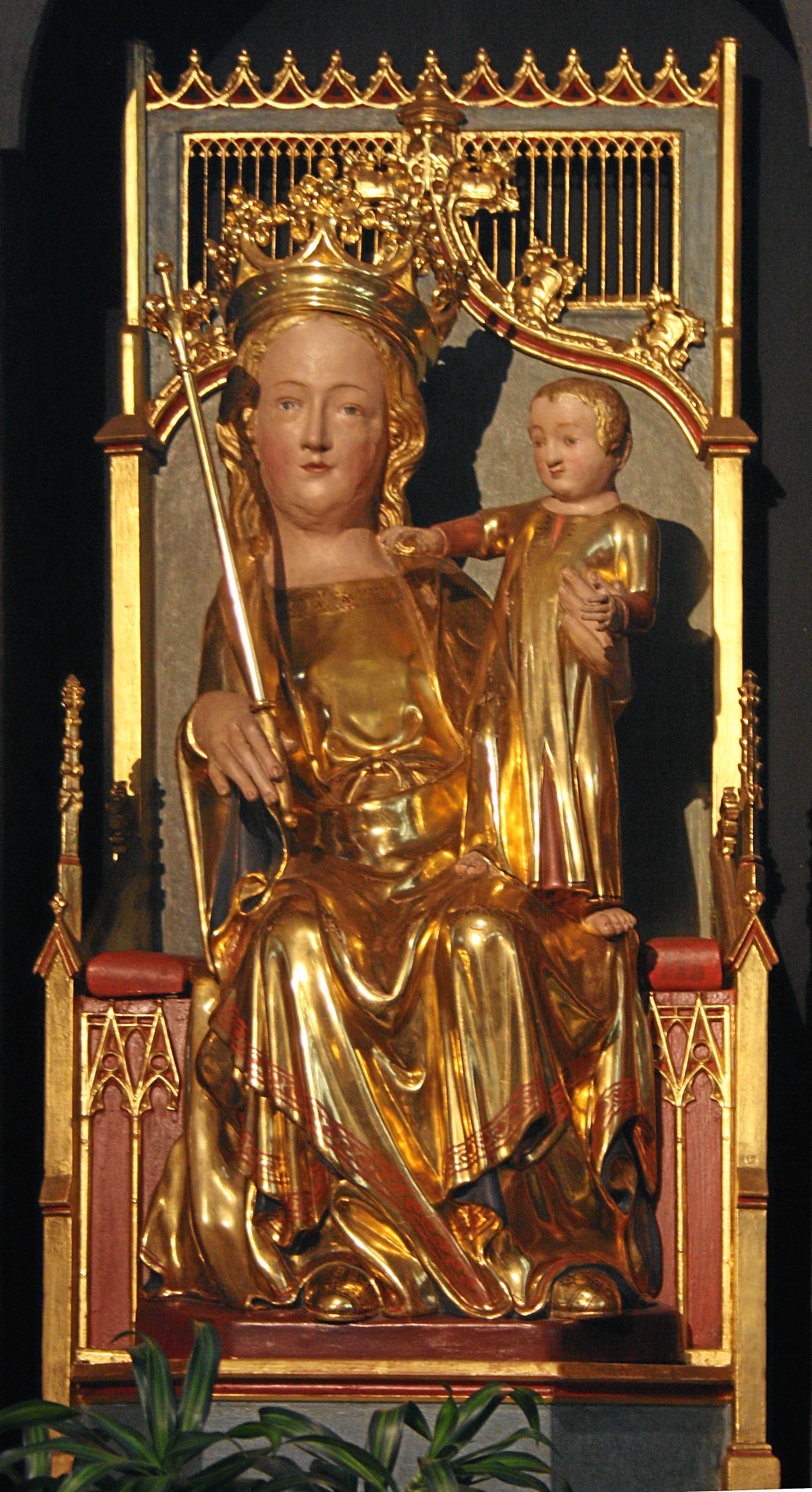 Düsseldorf, Germany. Catholic church St. Lambertus: madonna with child, created prior to 1334.